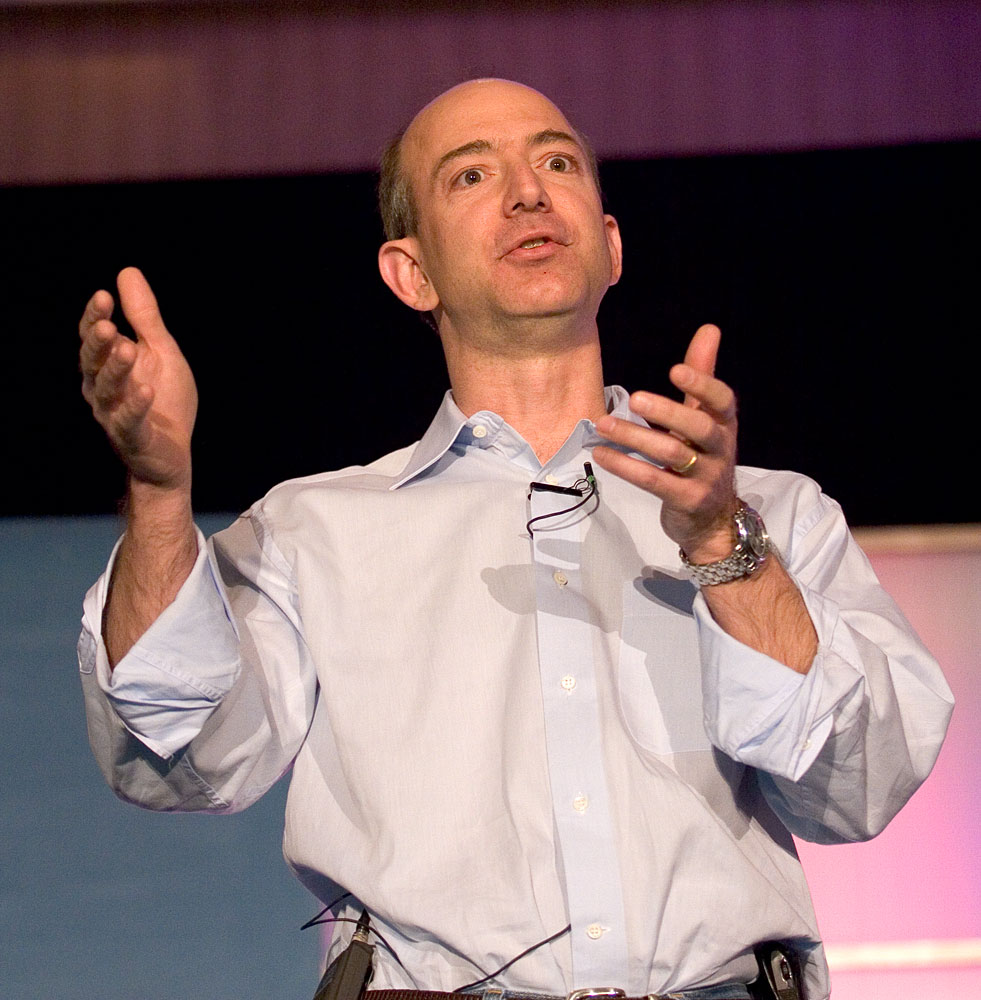 Amazon founder Jeff Bezos starts his High Order Bit presentation.